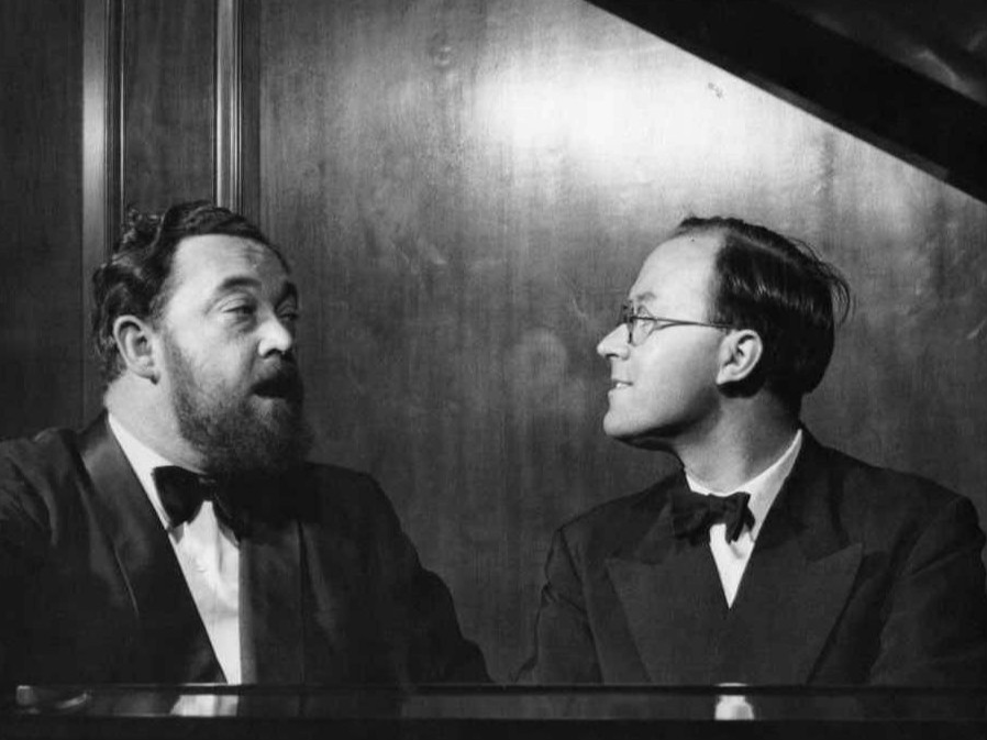 Photo of Flanders and Swann prior to their 1959 Broadway opening with At the Drop of a Hat.